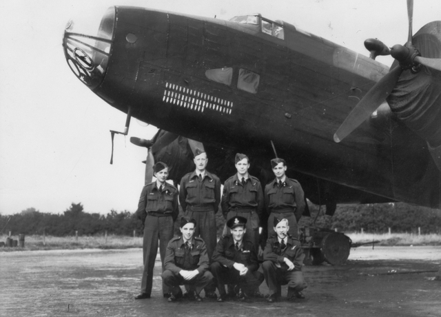 AWM caption : Group portrait of an Air Crew of 578 Squadron, RAF, in front of a Halifax bomber aircraft. Identified, left to right, back row: Sergeant (Sgt) Johnny Cowell DFM, Mid Upper Gunner, RAF Philip (Wally) Hammond DFC, Navigator, RAF Flight Sergeant Ernie Williams DFM, Wireless Operator, RAF Charles Mears DFM, Rear Gunner, RAF Front row : Sgt 'Dingle' Bell DFM, Flight Engineer, RAF 410364 Don McDonald DFC, RAAF, Pilot Maurie Given DFC, RNZAF, Bomber Aimer